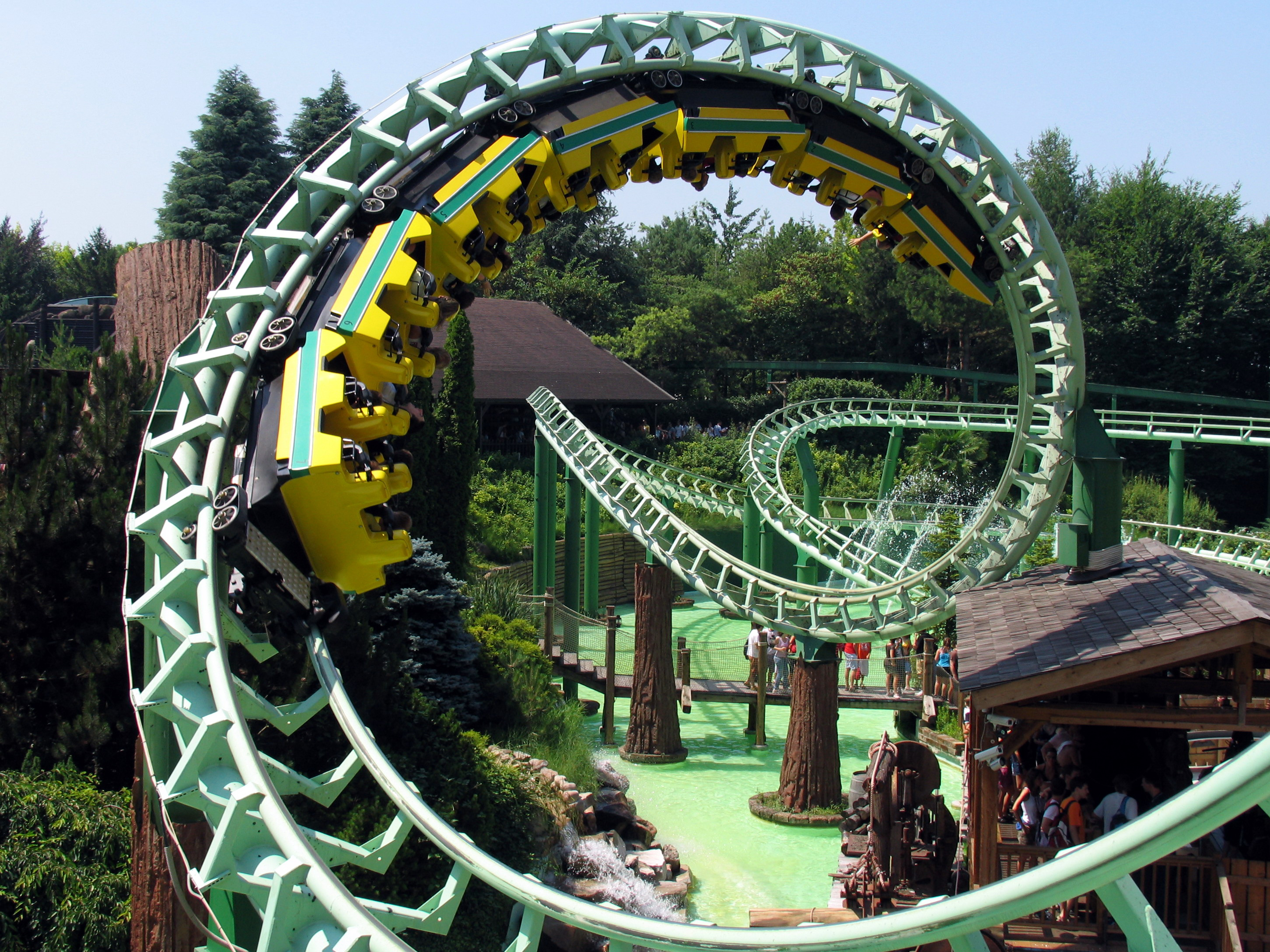 Train of Roller coaster Magic Mountain in Cork Screw at Gardaland, Italy